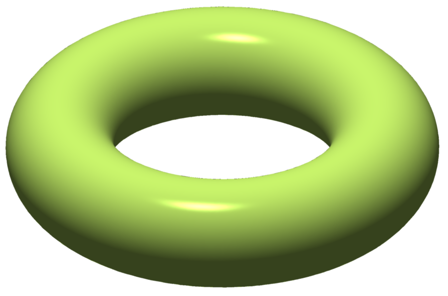 Illustration of torus